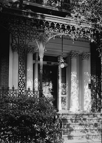 Rankin House, 1440 Second Avenue, Columbus (Muscogee County, Georgia). cropped